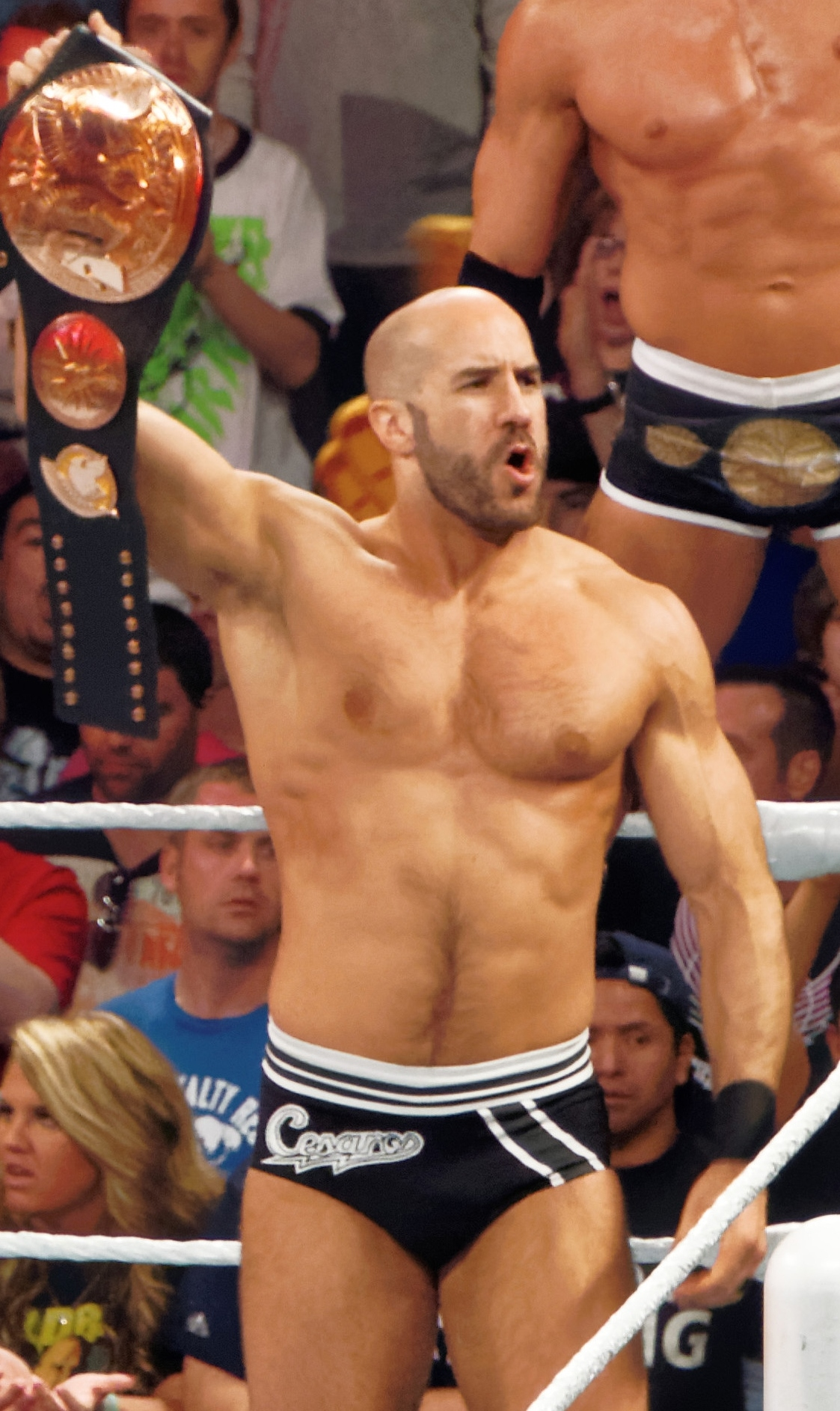 Cesaro as the WWE Tag Team Champion at the WWE Raw television taping on March 30, 2015.